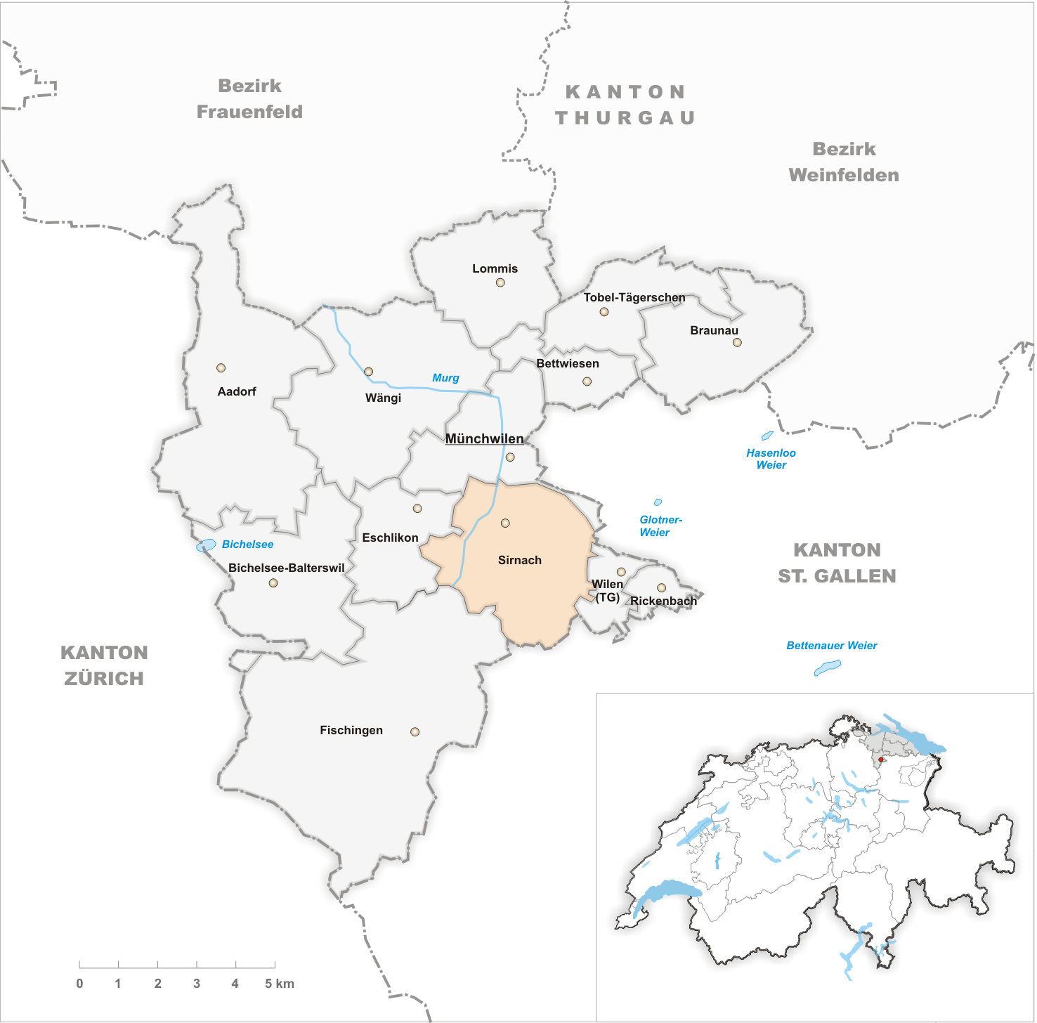 Municipality Sirnach